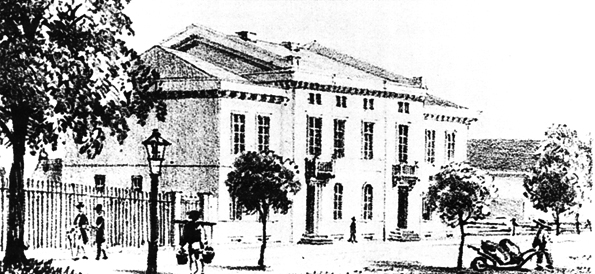 The old Posthaus (“post office”) of Bremerhaven, opened on the 10th of may of 1847 at the west side of the Alten Hafen. The neoclassical building had two entrances: one for the Bremen mail service and one for the Hannover mail service.